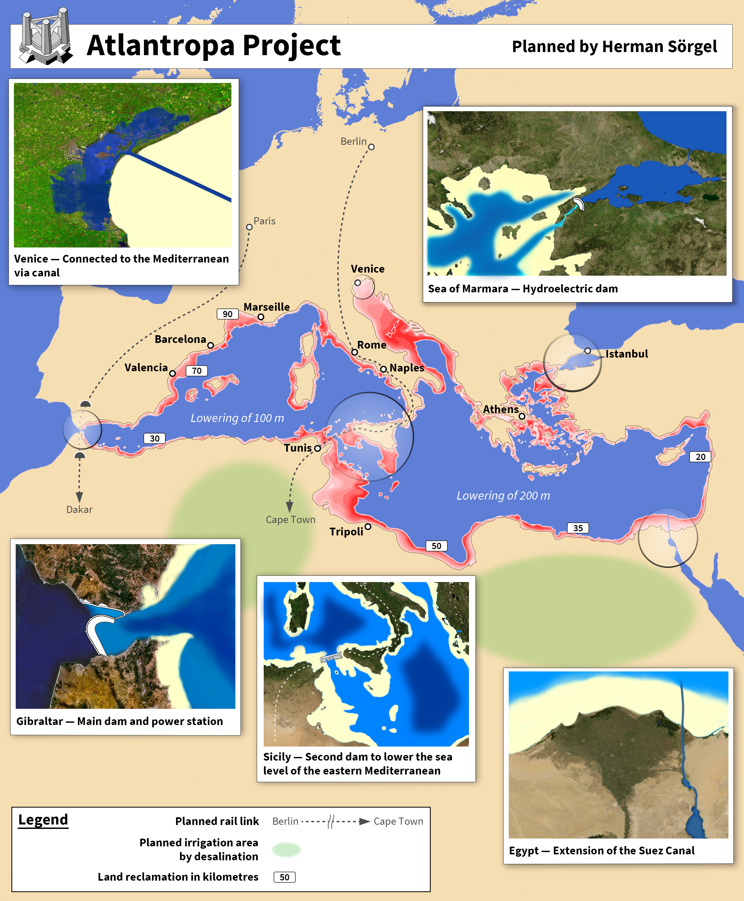 Map of the Atlantropa Project (English)